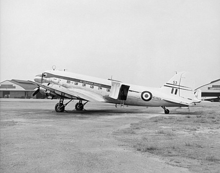 A Royal New Zealand Air Force Douglas C-47B-45-DK Dakota VIP transport (NZ 3553, USAAF s/n 45-0962) from No. 42 Squadron RNZAF at Bofu (?), Japan, in February 1954. From delivery in 1945 to its retirement on 20 May 1977 it flew 13,701 hours. It was then sold to a private company.